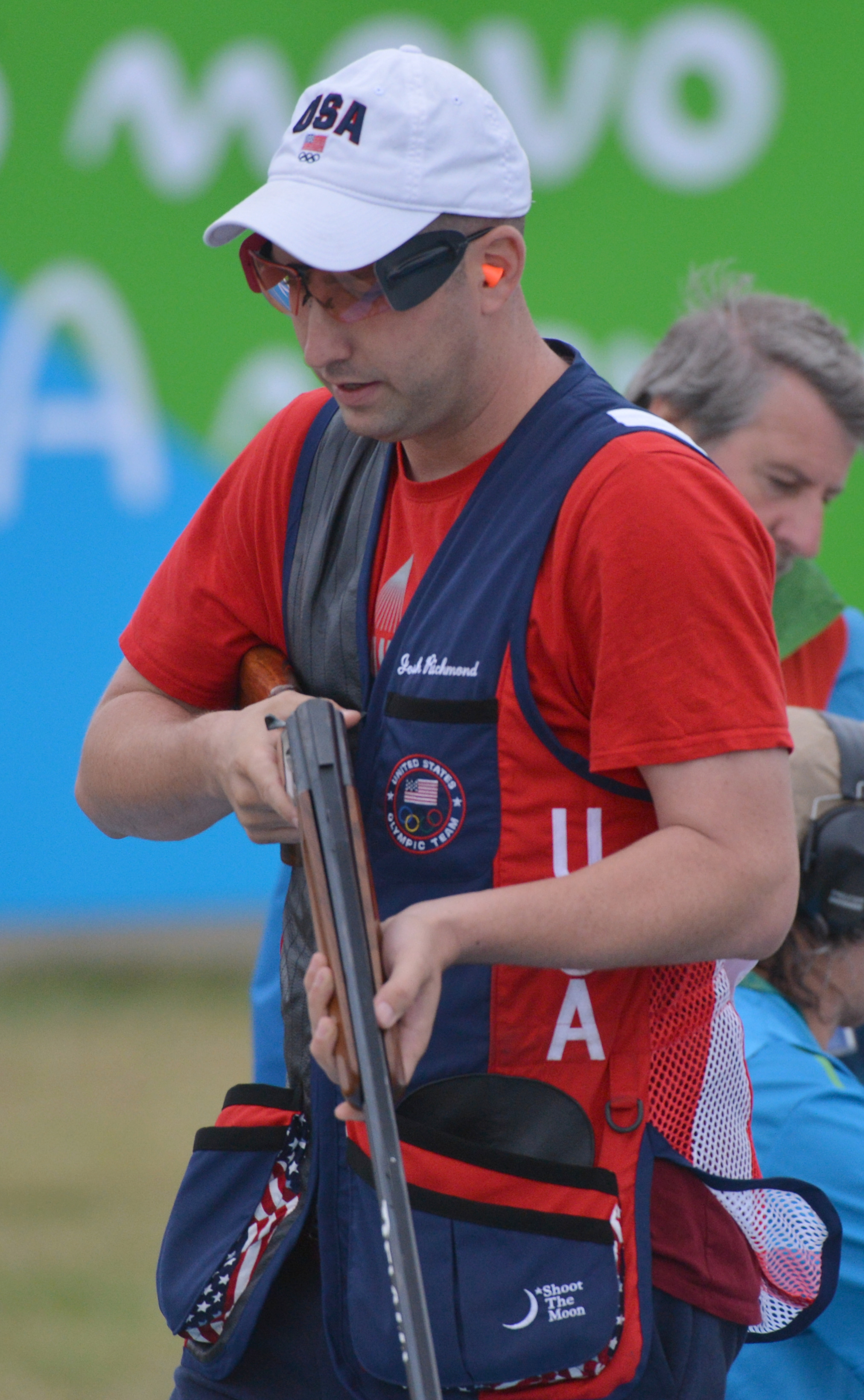 U.S. Army Marksmanship Unit shotgun shooters SFC Joshua Richmond finished seventh and SFC Glenn Eller finished 14th in men's double trap Aug. 10 at the 2016 Rio Olympic Games in Rio de Janeiro. U.S. Army photo by Tim Hipps, IMCOM Public Affairs